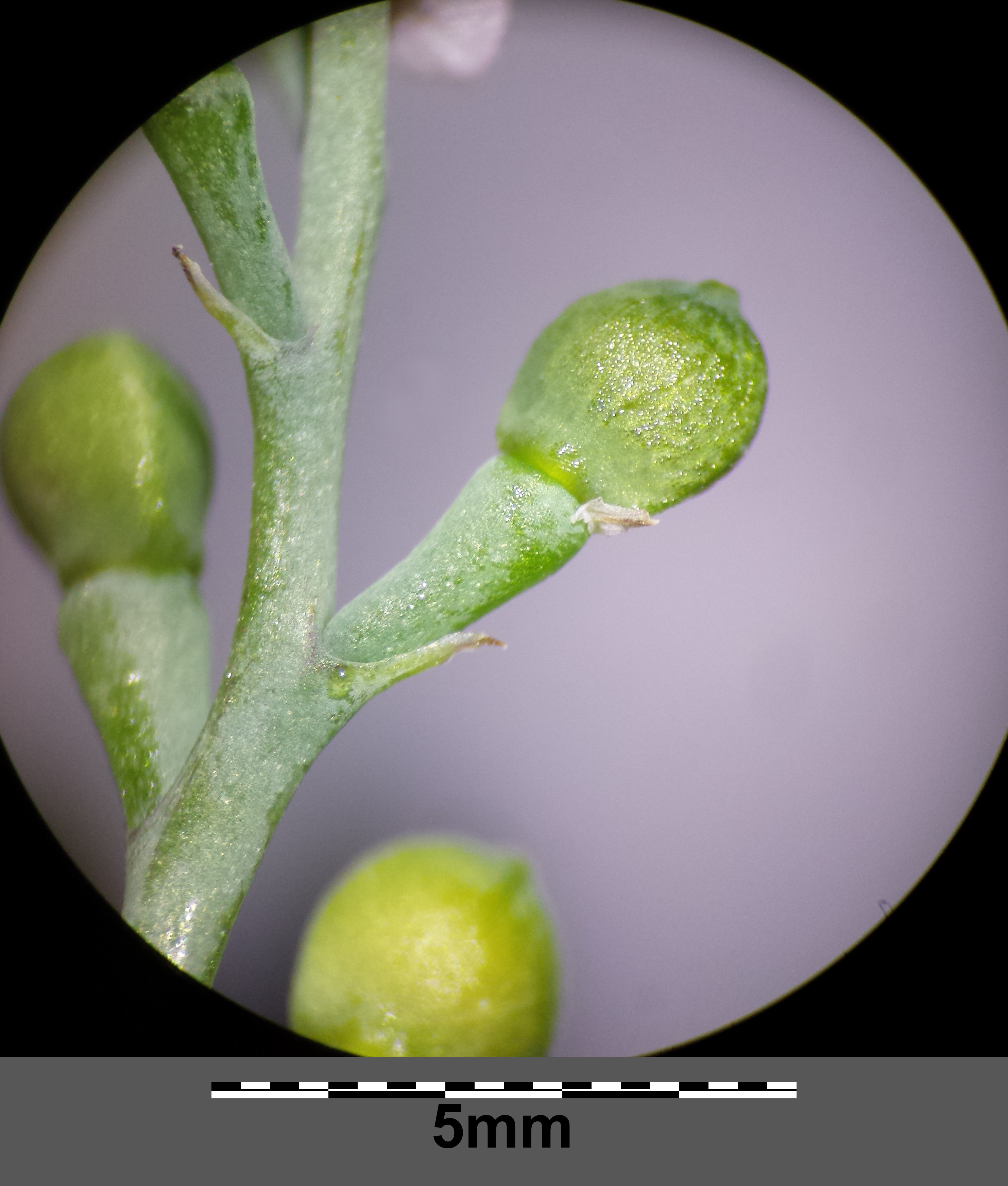 Fruit with pedicel and bract Taxonym: Fumaria vaillantii ss Fischer et al. EfÖLS 2008 ISBN 978-3-85474-187-9 Location: Grillenberg near Niederhollabrunn, district Korneuburg, Lower Austria - ca. 350 m a.s.l. Habitat: fallow land